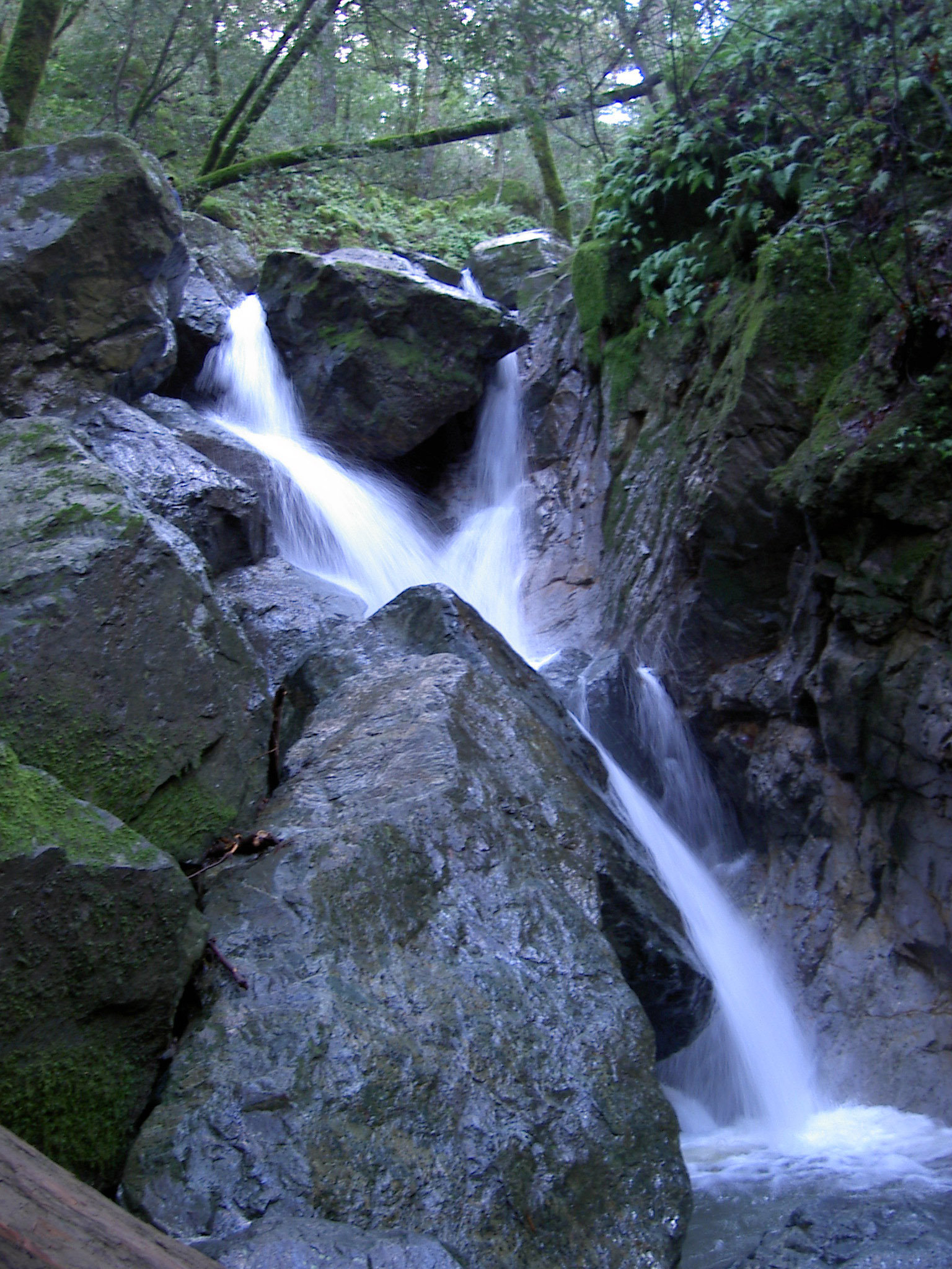 waterfall on Sonoma Creek